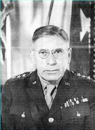 General Ben Lear from [1]. Official U.S. Army command portrait photograph, not eiligible for copyright